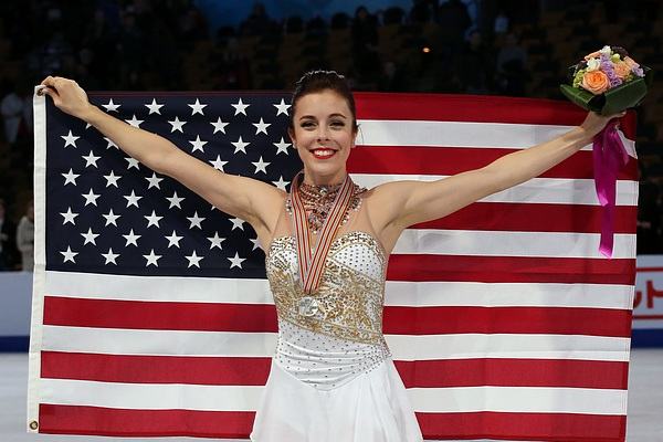 Ashley Wagner at the 2016 World Championships.